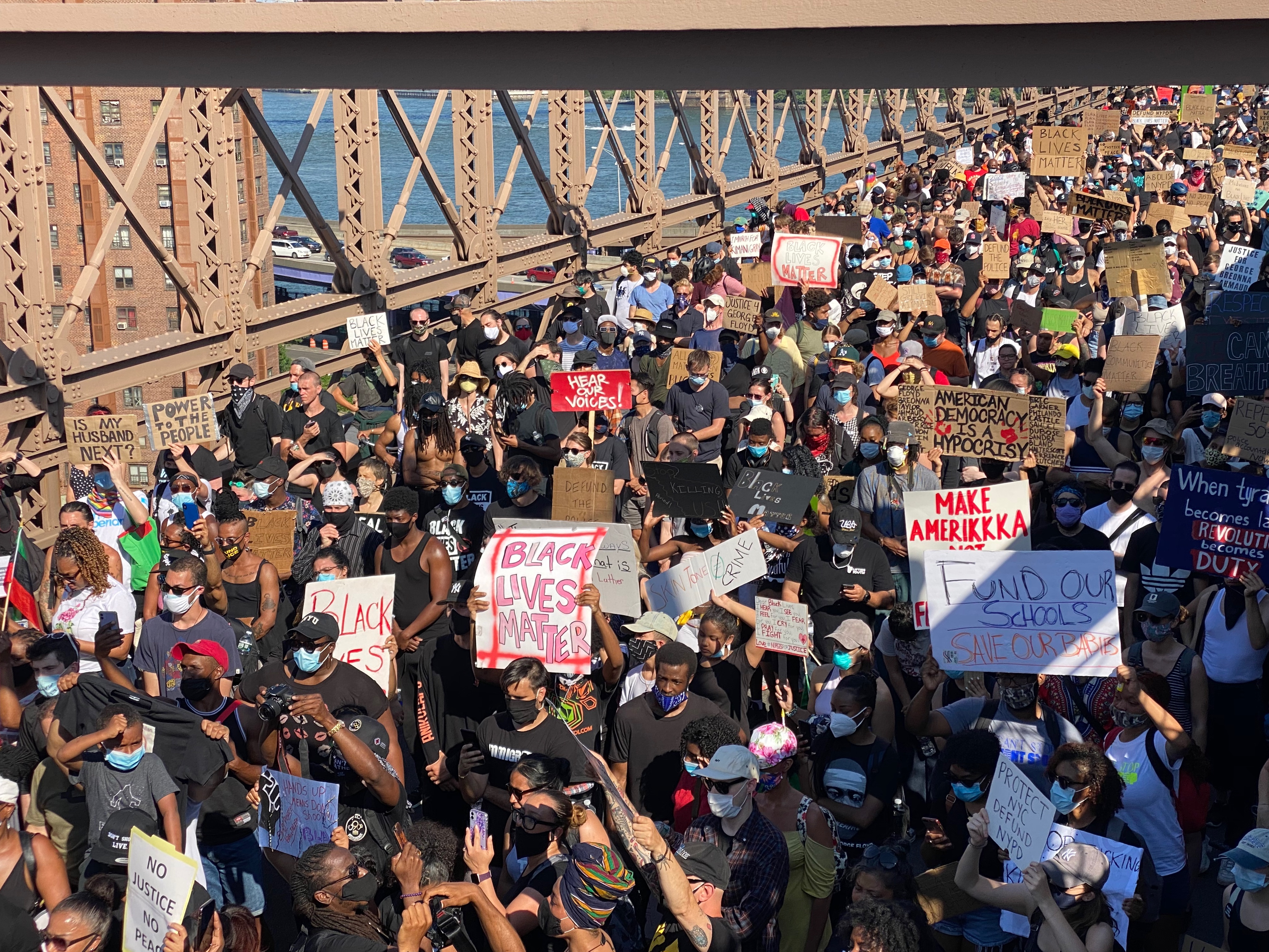 BLM protest on the Brooklyn Bridge, New York City on June 9, 2020